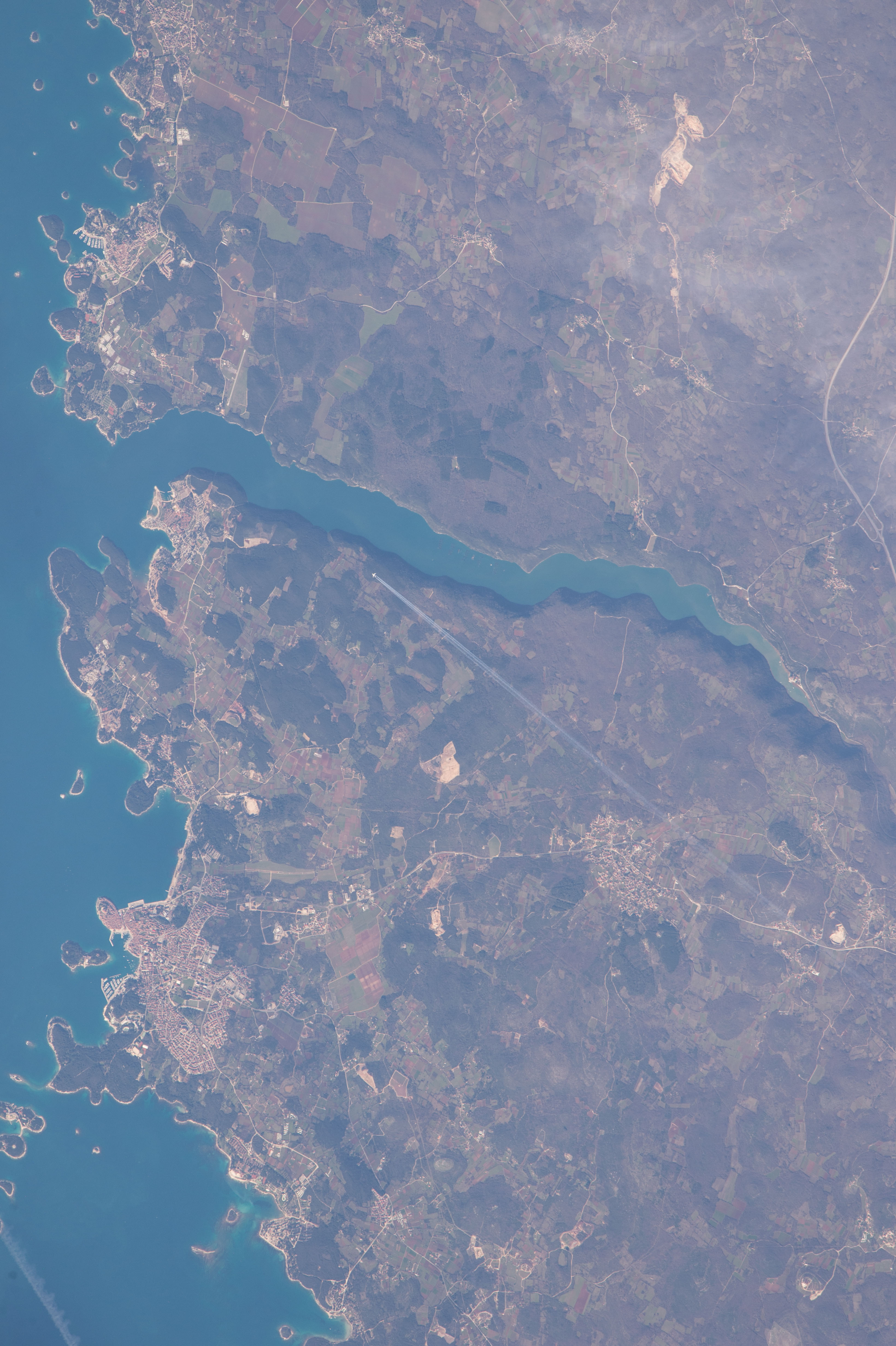 NASA astronaut Tim Kopra tweeted this image with the comment: "Coast of #Croatia -- and happened to catch a plane in the photo. #ISS"